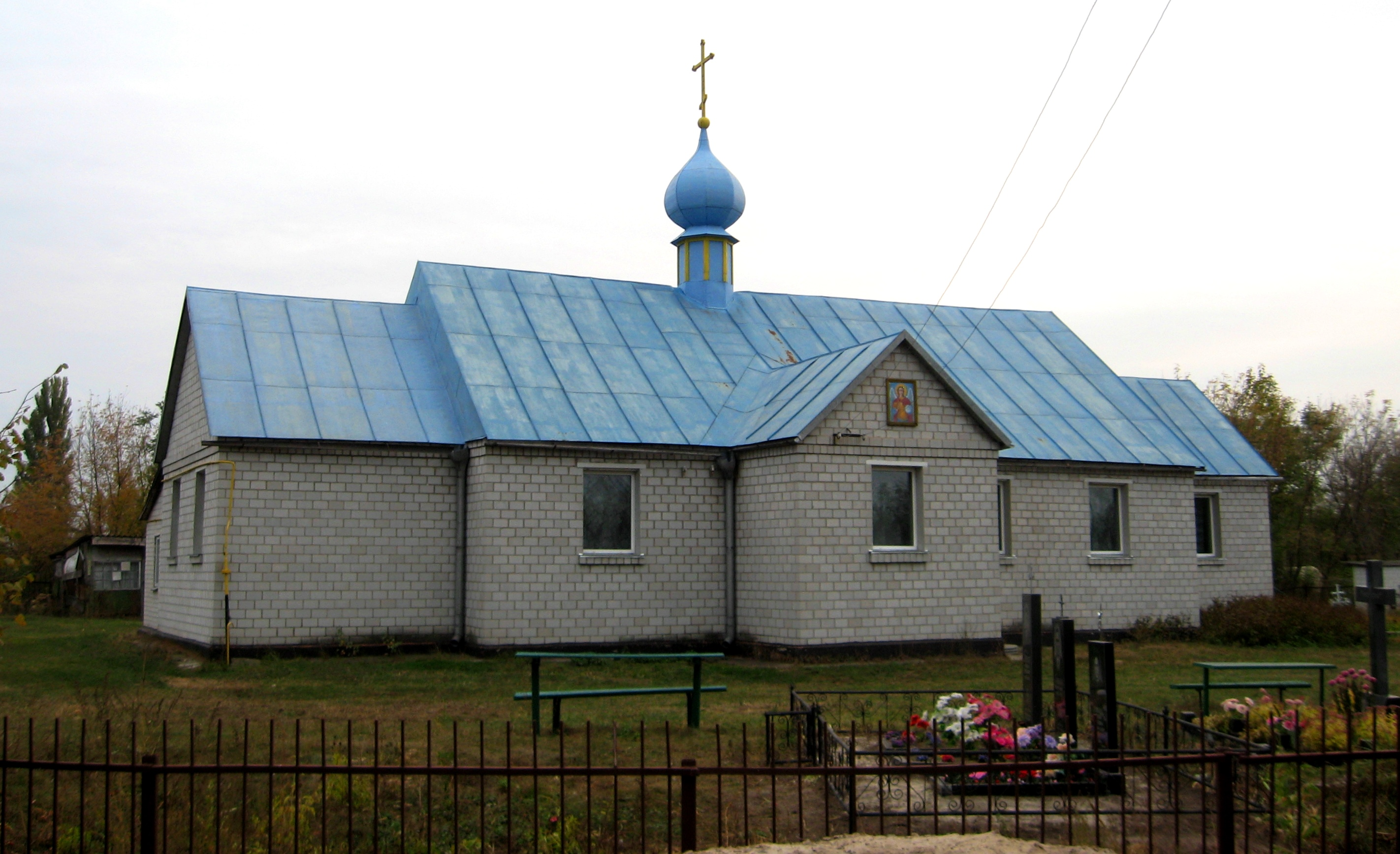 Church in Liubartsi, Boryspil Raion, Kyiv Oblast, Ukraine